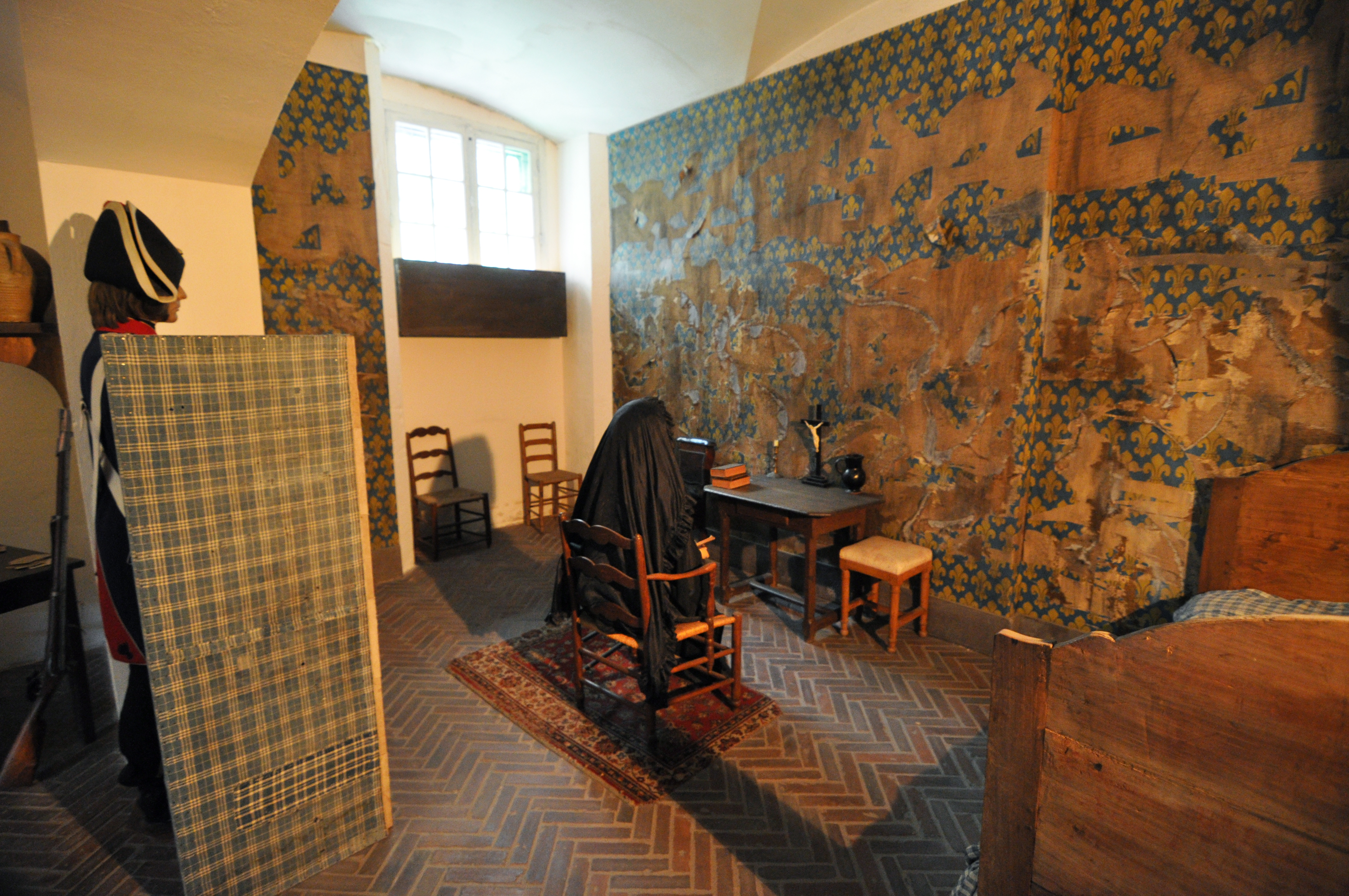 This photo was taken at the cell where Marie Antoinette lived the last days of her life. It is a reconstitution at the Conciergerie museum.